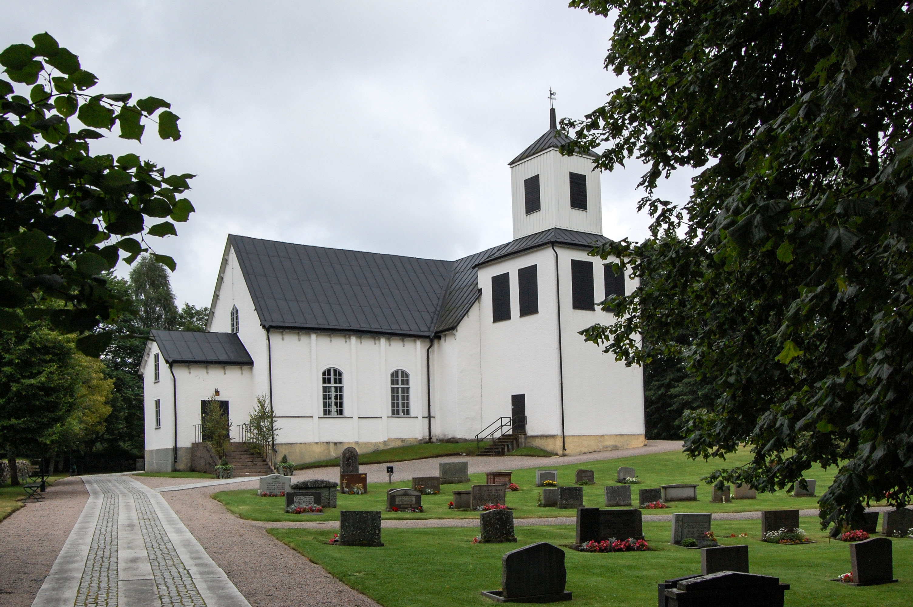 Näsby Church.Exterior